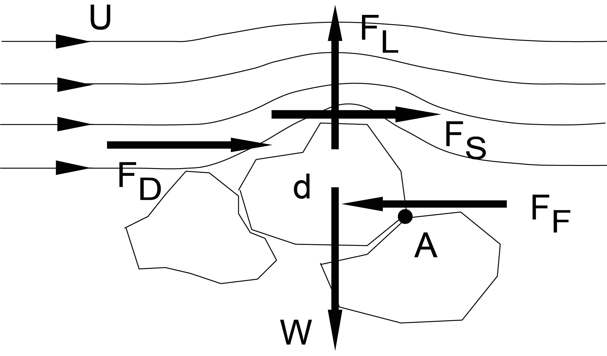 Configuration to explain Izbash formula from equilibrium of moments